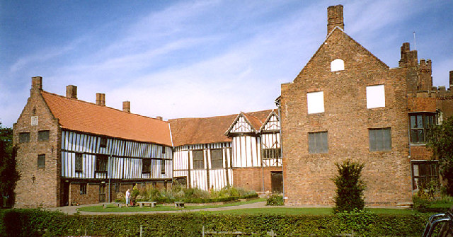 Gainsborough Old Hall. South aspect showing East, West and North wings.